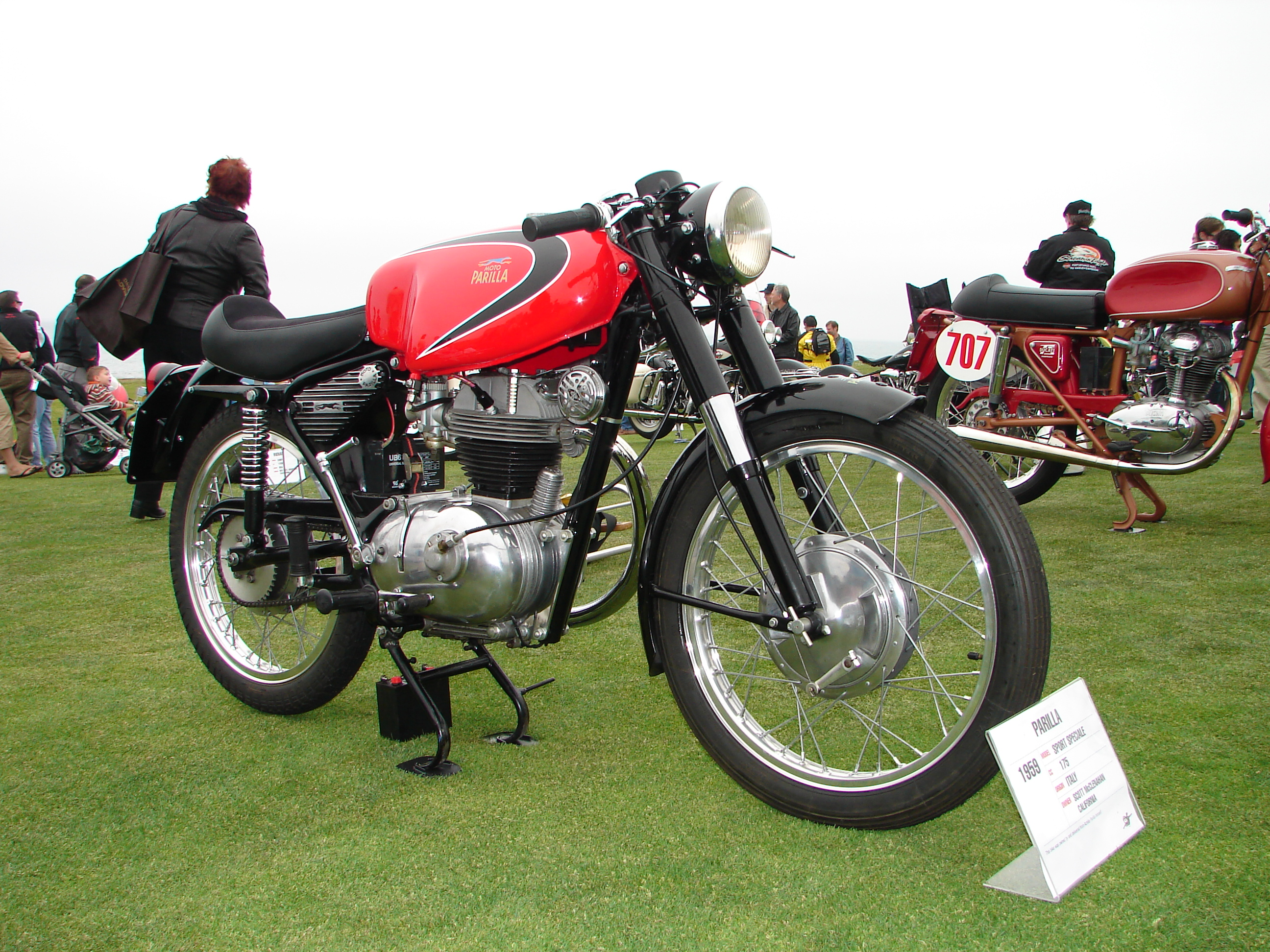 I love this bike.